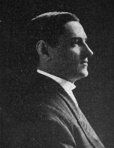 James Michael Curley (1874–1958)